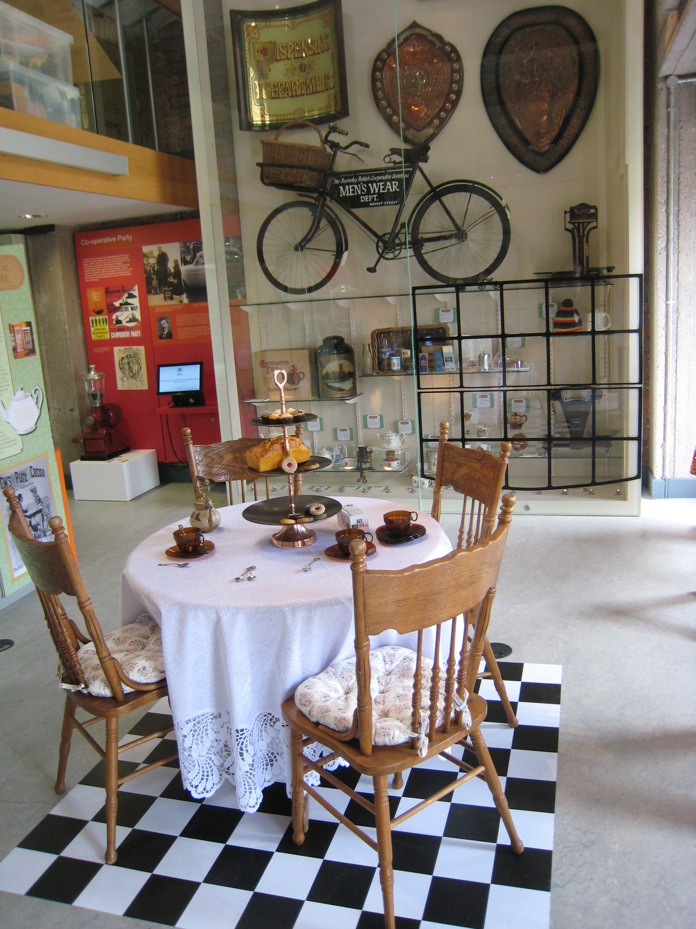 Rochdale Pioneers Museum, 31 Toad Lane, Rochdale. Part of the first floor with table and chairs showing tea, biscuit & cake products and a wall display including a delivery bicycle.